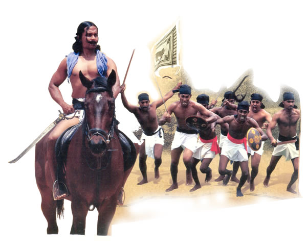 Angampora Korathota Tradition